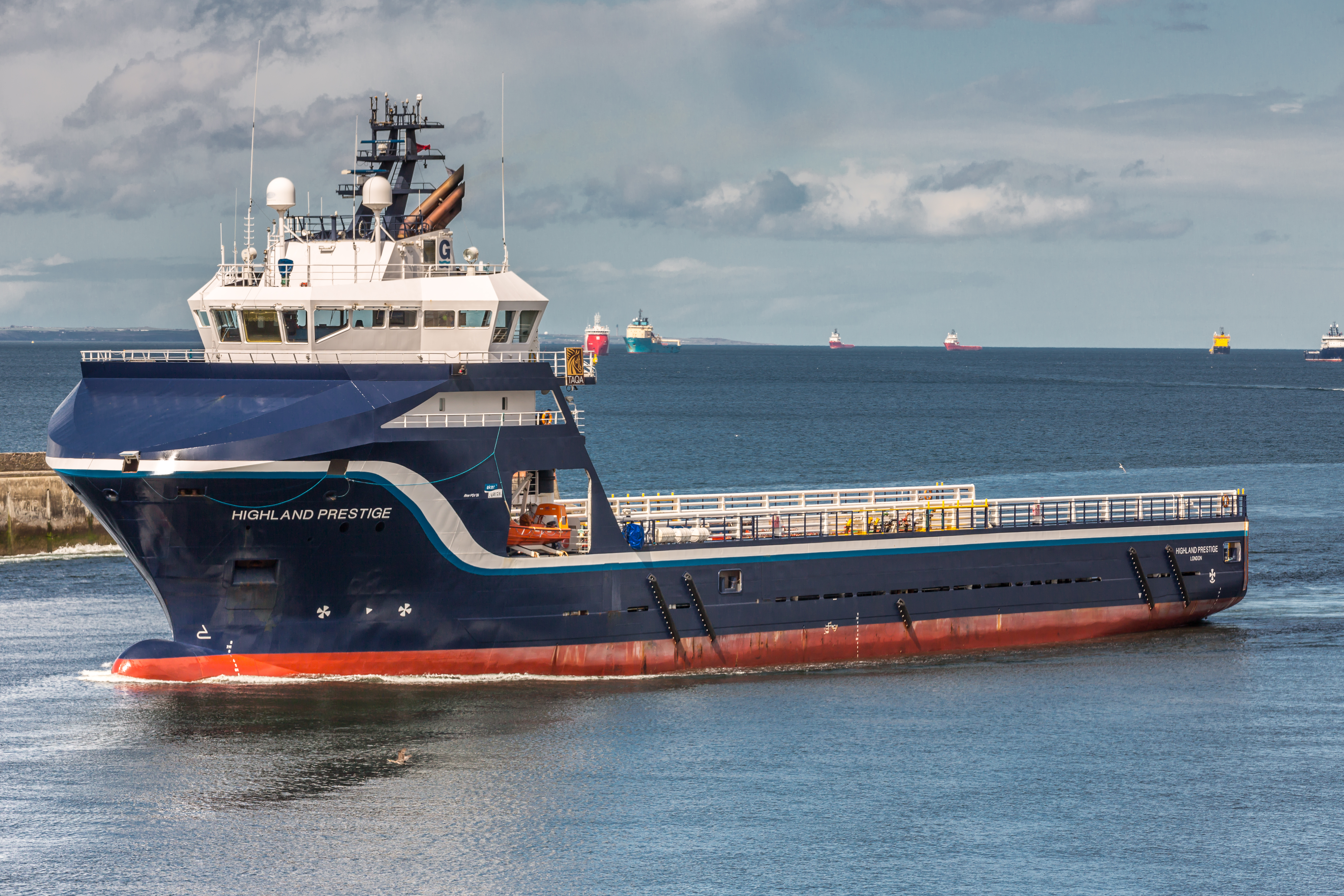 IMO: 9364021 MMSI: 235050073 Call Sign: MASA Flag: United Kingdom (GB) AIS Type: Cargo Gross Tonnage: 3702 Deadweight: 4993 t Length × Breadth: 86.6m × 19.03m Year Built: 2007 Status: Active